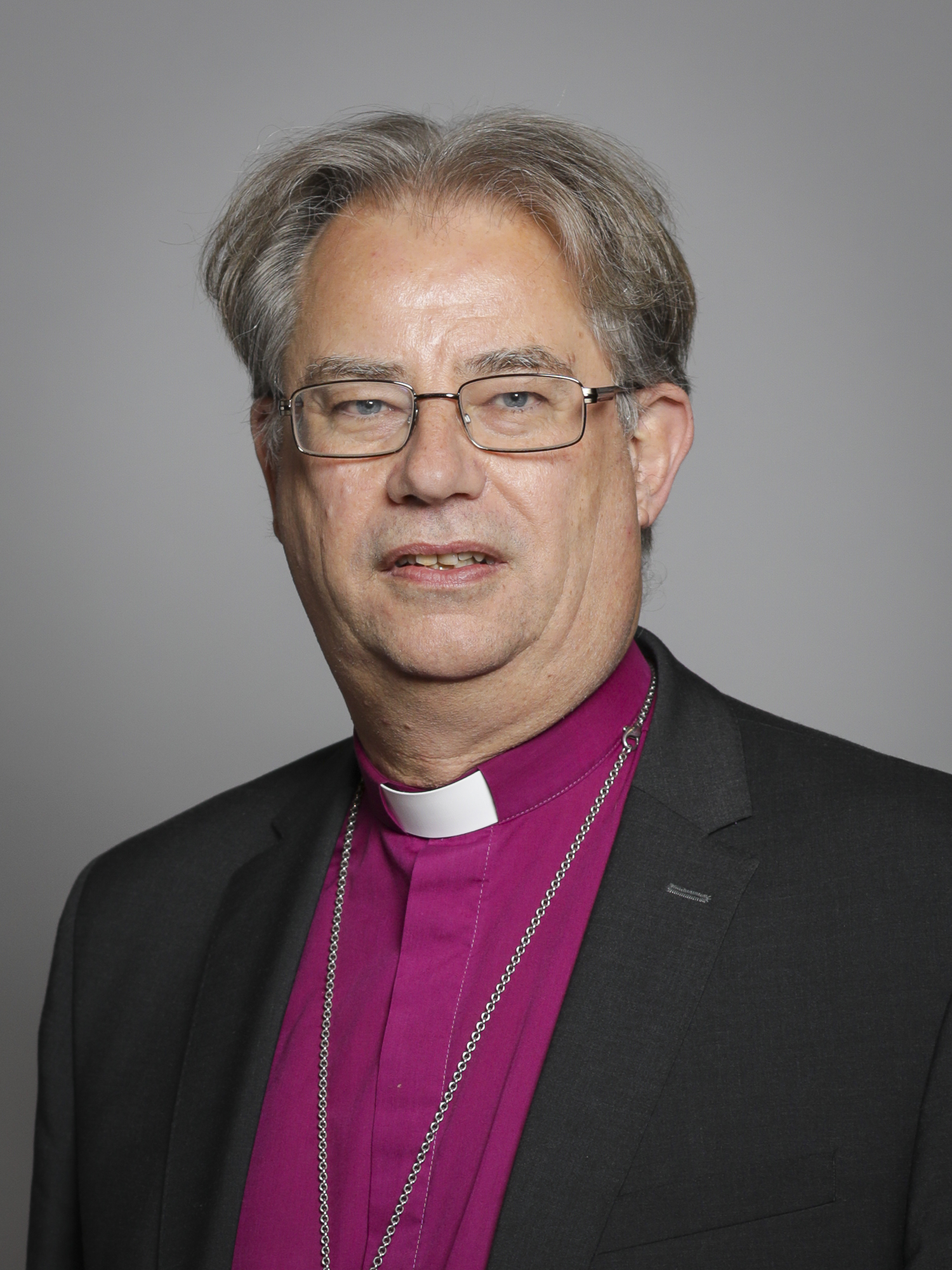 Official portrait of The Lord Bishop of Oxford 3×4 portrait of The Lord Bishop of Oxford